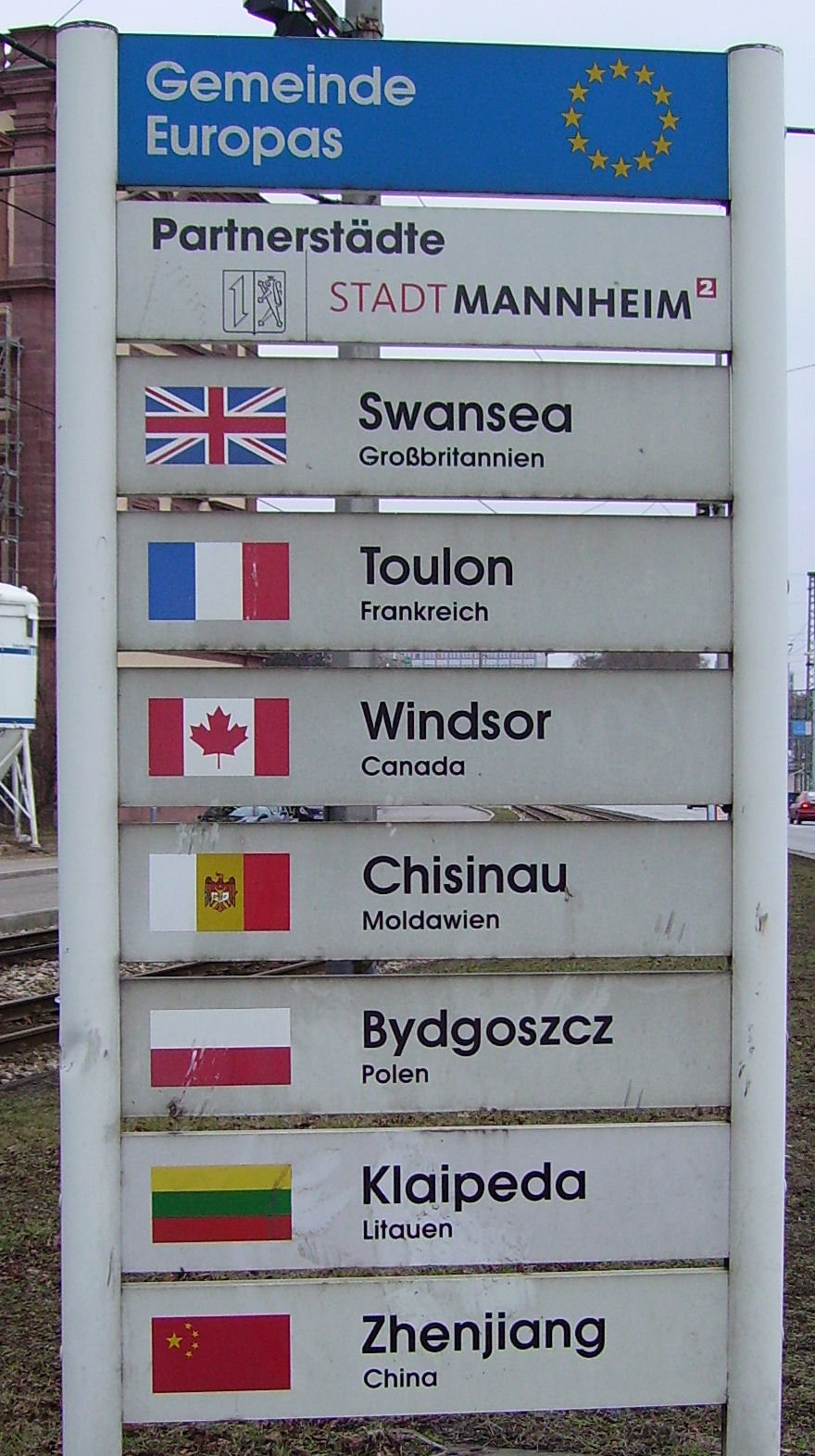 partners of Mannheim, Germany